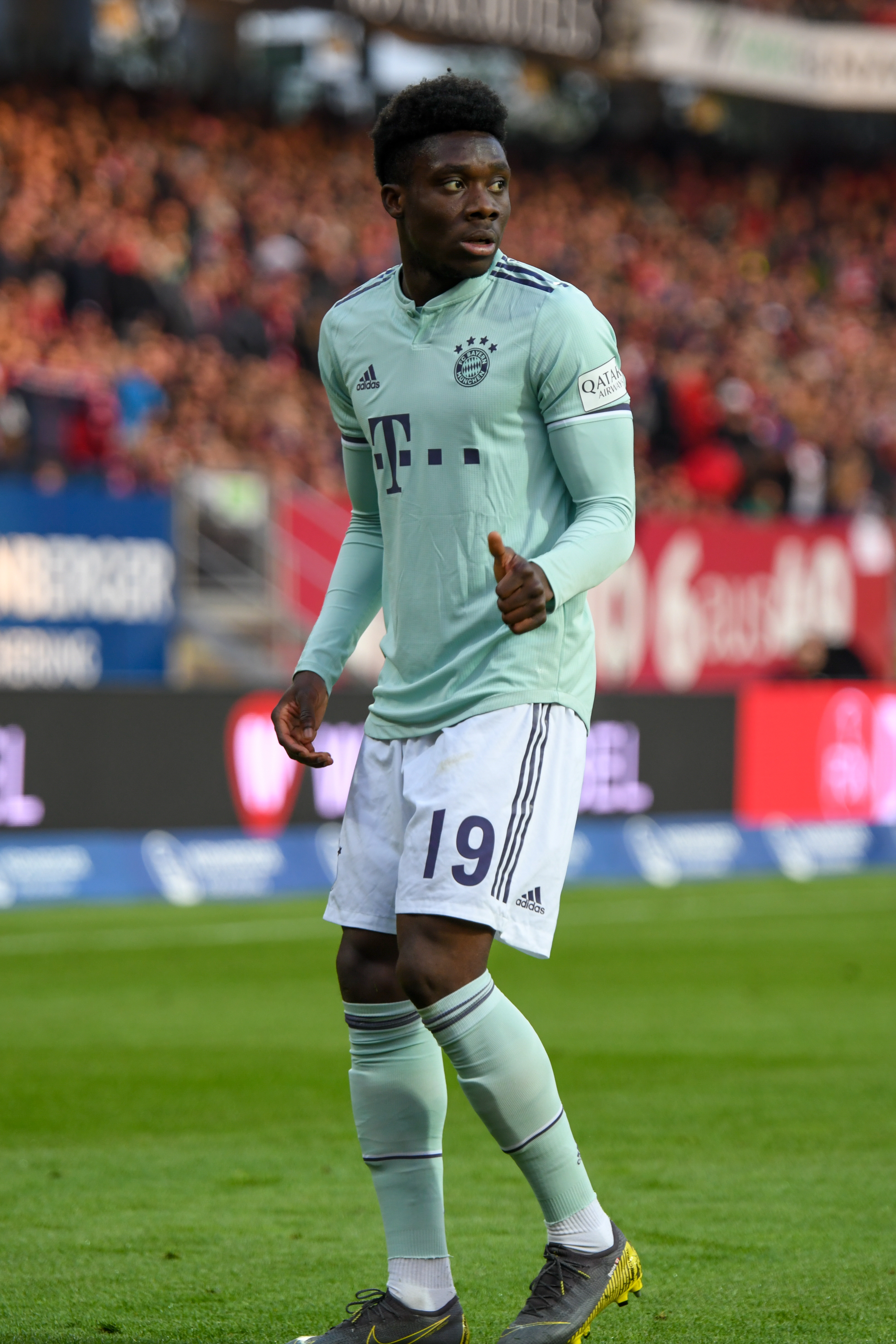 German Soccer League Season 2018/19, 31st match day 1. FC Nürnberg vs. 1. FC Bayern München. Picture shows: Alphonso Davies of Munich.